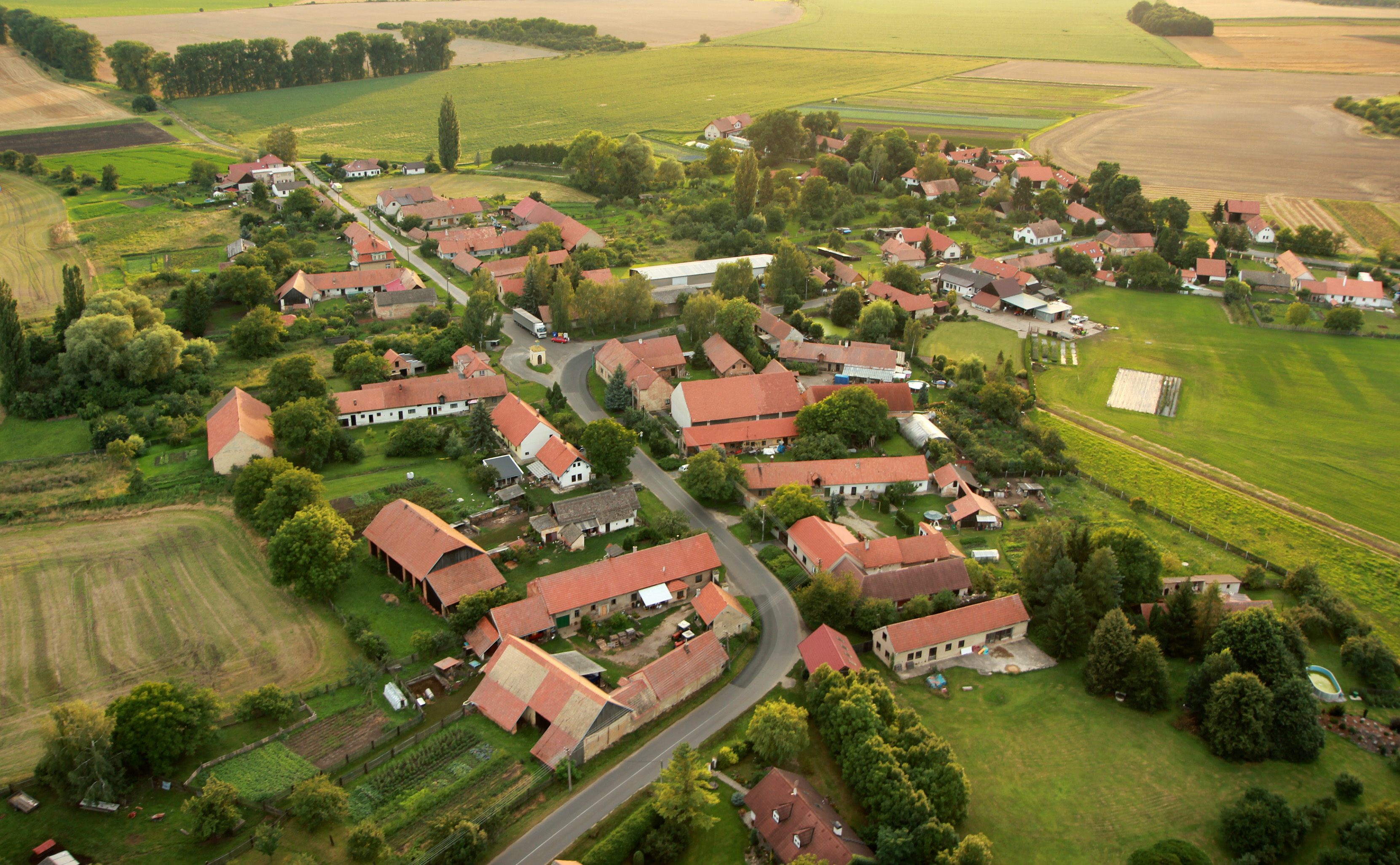 Aerial view of Sovenice, part of Křinec village, Czech Republic